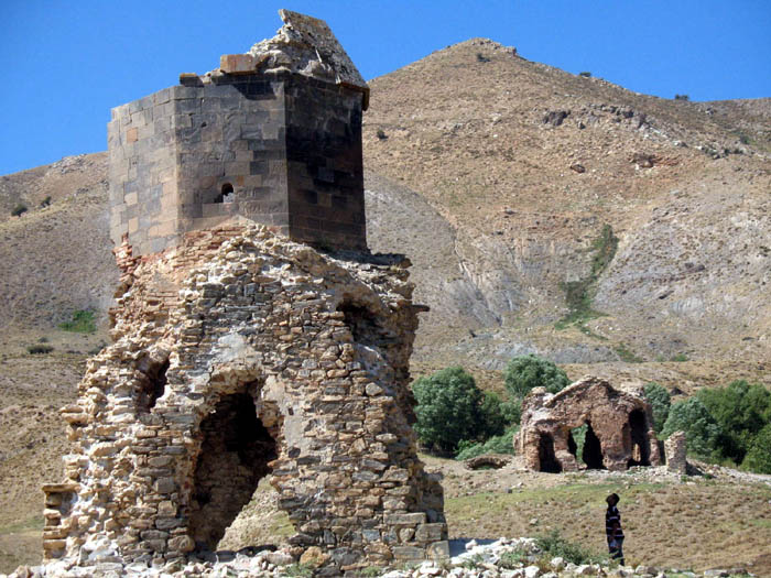 Ruins of Arak'elots monastery